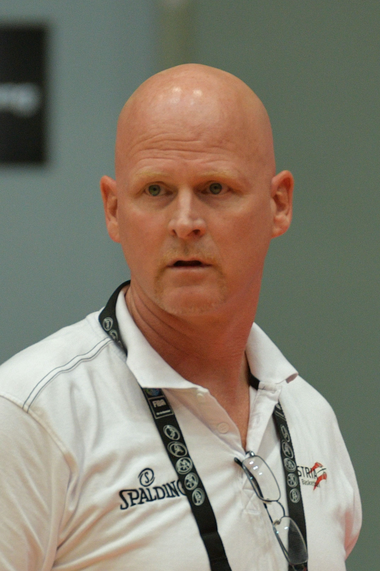 FIBA Eurobasket 2021 Pre-Qualifiers Austria vs. Cyprus 2018/09/13 Multiversum Schwechat. Picture shows: Mike Coffin (AUT)